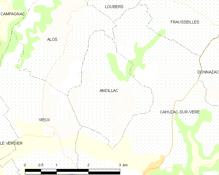 Map of French municipality Andillac